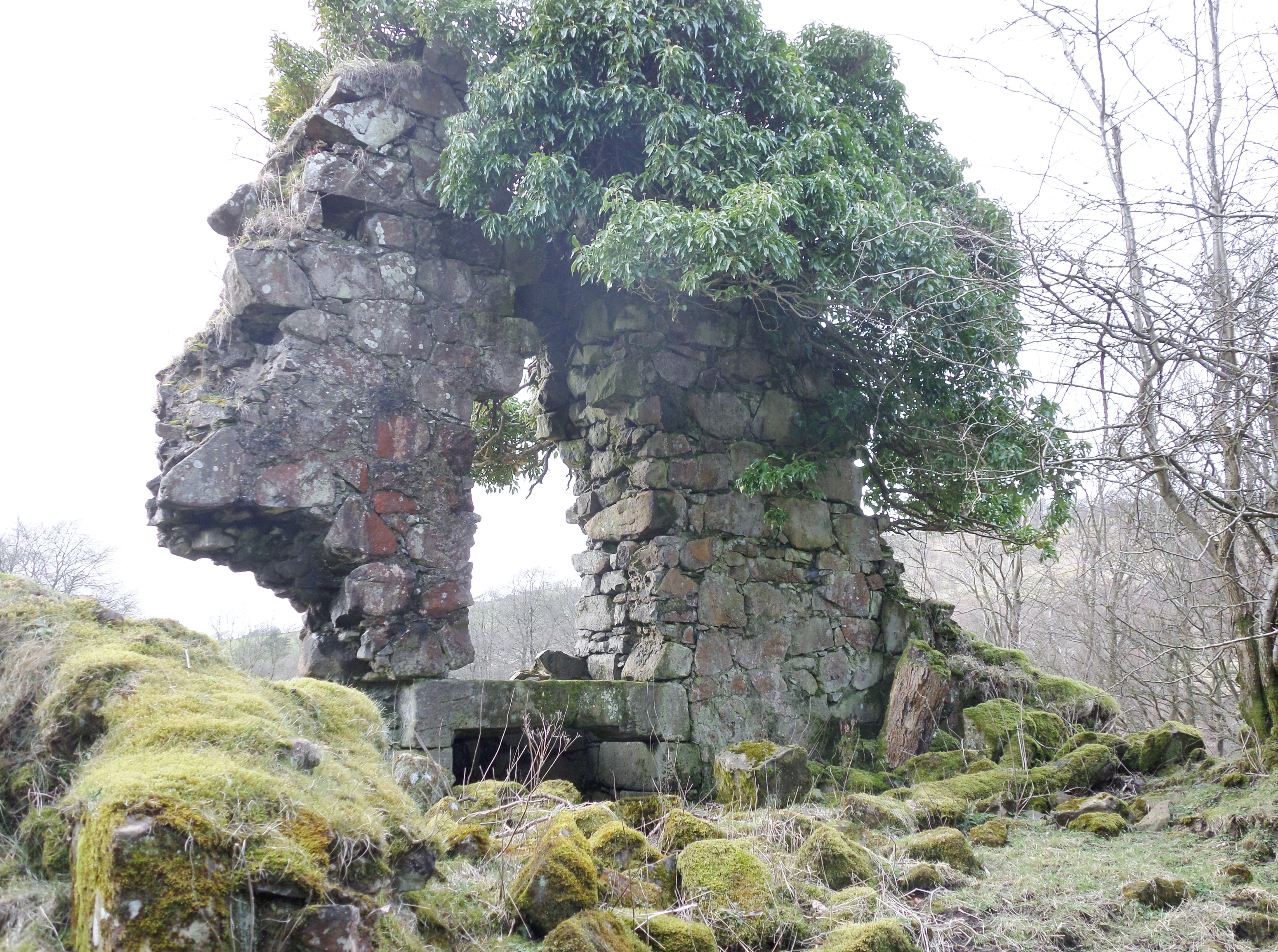 East facing aspect at the Old Cowden Hall on the estate, Neilston, East Renfrewshire, Scotland. The main fireplace was in this wall.